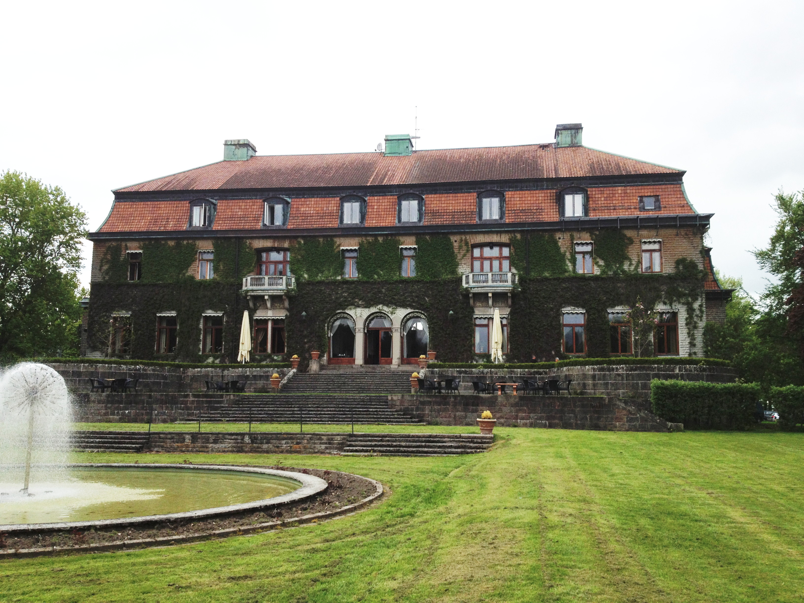 Bjertorp Castle nearby Vara, in southwestern Sweden.